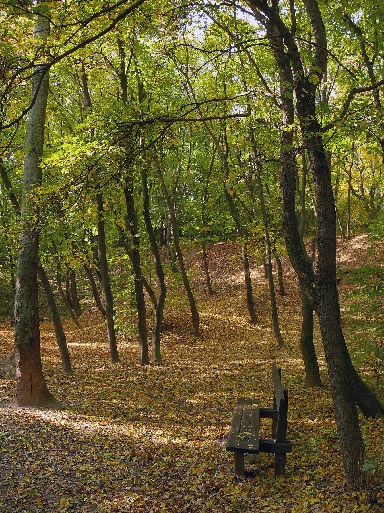 The park of the Kiscell Castle